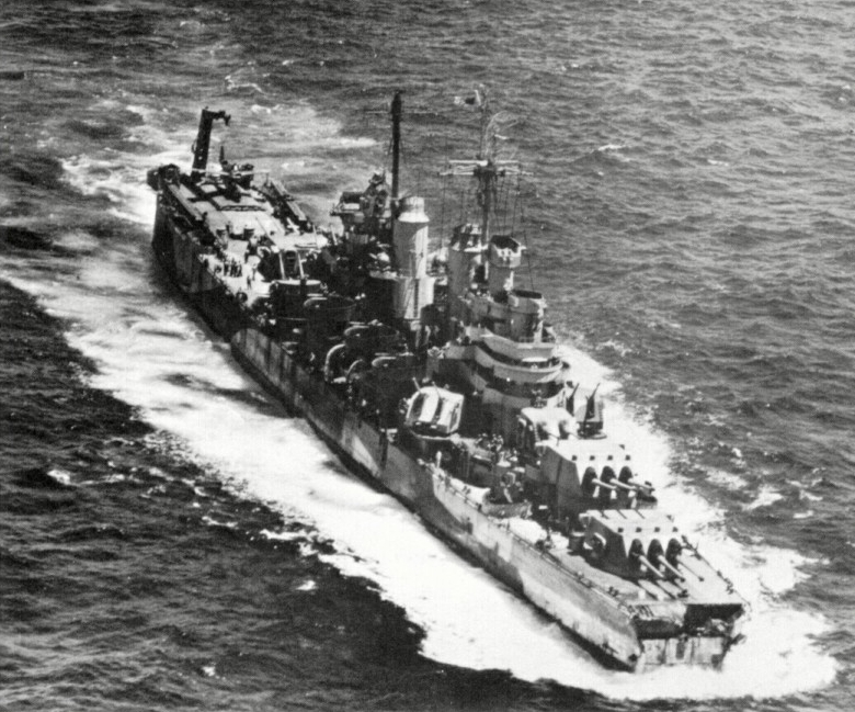 The U.S. Navy heavy cruiser USS Pittsburgh (CA-72) en route to Guam for temporary repairs, shortly after she lost her bow in a typhoon on 5 June 1945. Note that the wartime censor has removed the radar antennas only on the forward Mk 34 and Mk 37 gun directors.